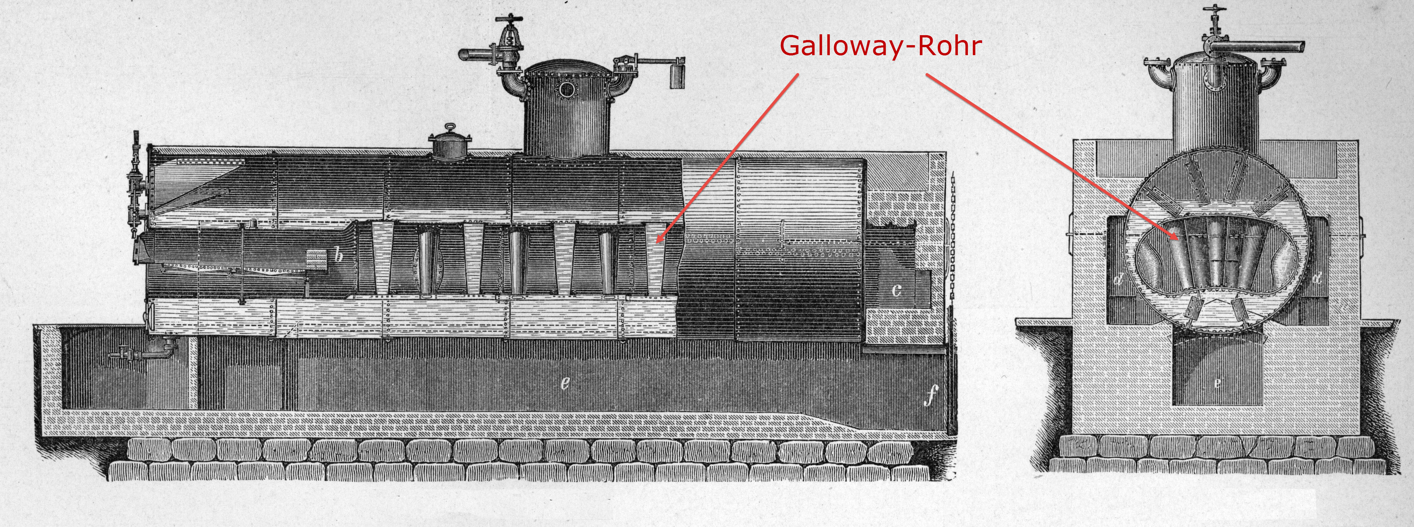 Galloway boiler, longitudinal section and cross section. Galloway-tube indicated. Index German